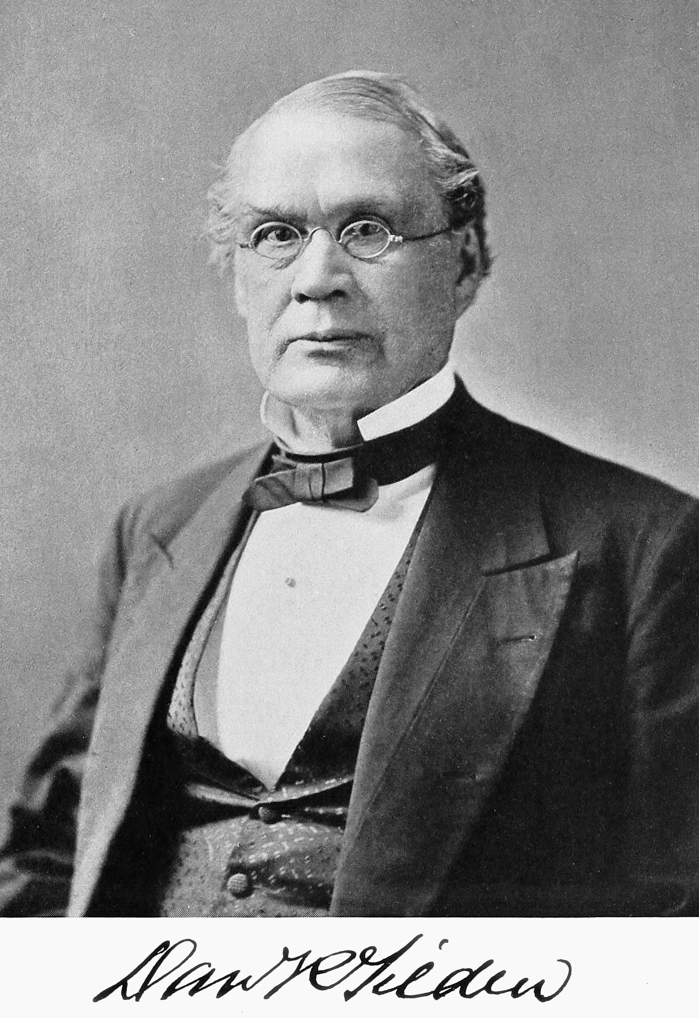 an Ohio congressman named Daniel R. Tilden